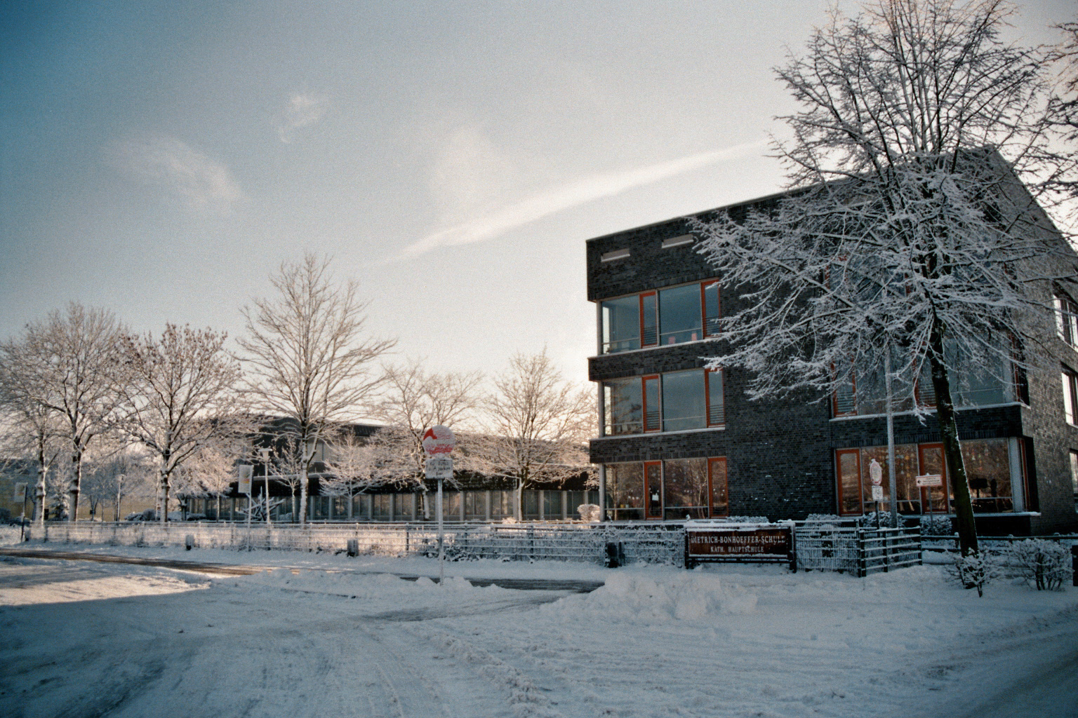 Fürstenberg-Schule in Recke, Kreis Steinfurt, North Rhine-Westphalia, Germany.